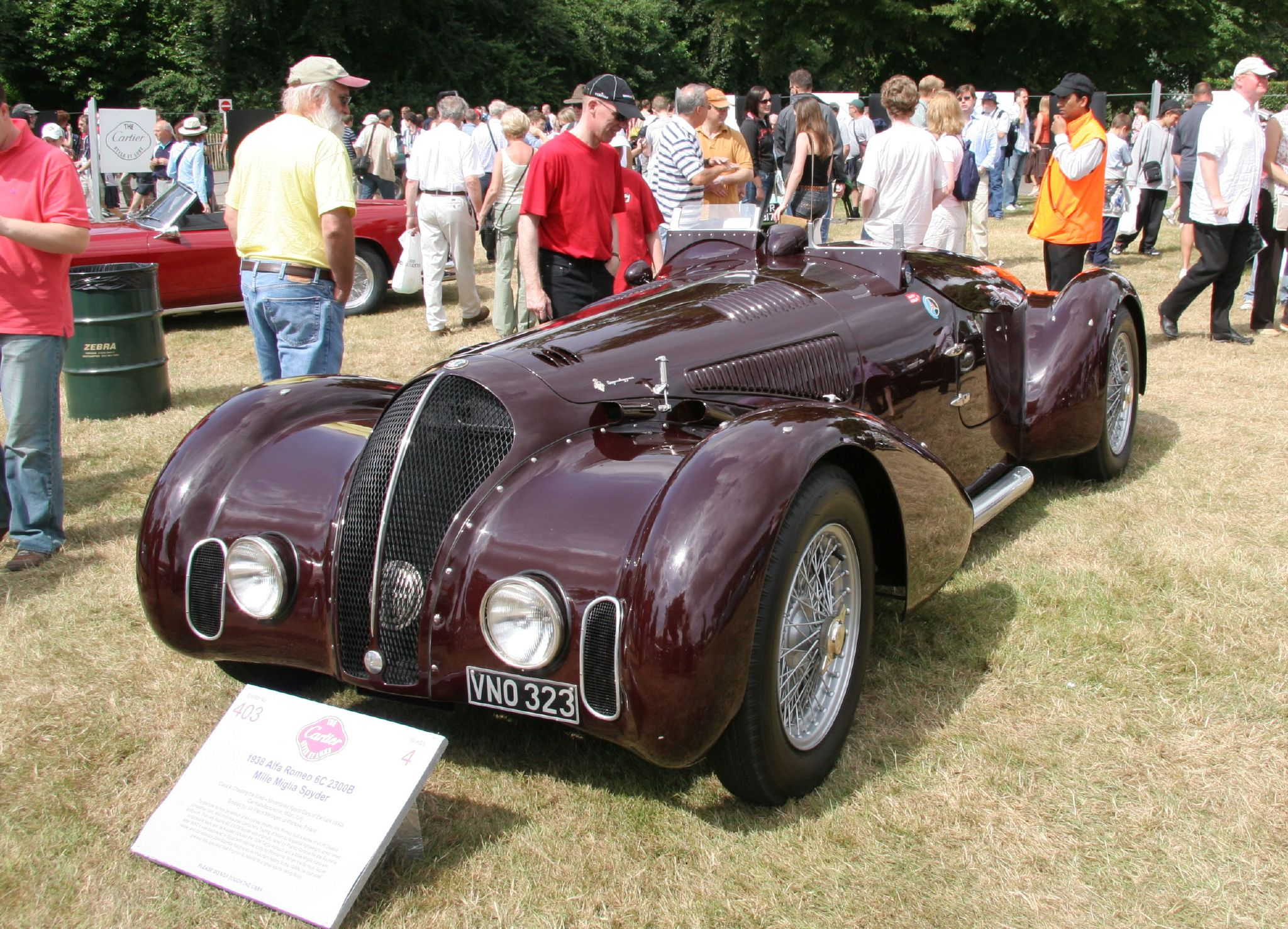 Alfa Romeo 6C 2300B Mille Miglia Spyder, 1938